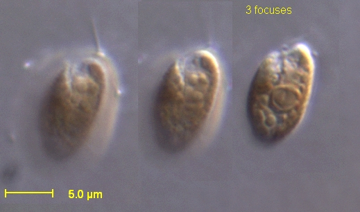 Rhodomonas salina (Cryptophyceae) CCMP Strain # 332